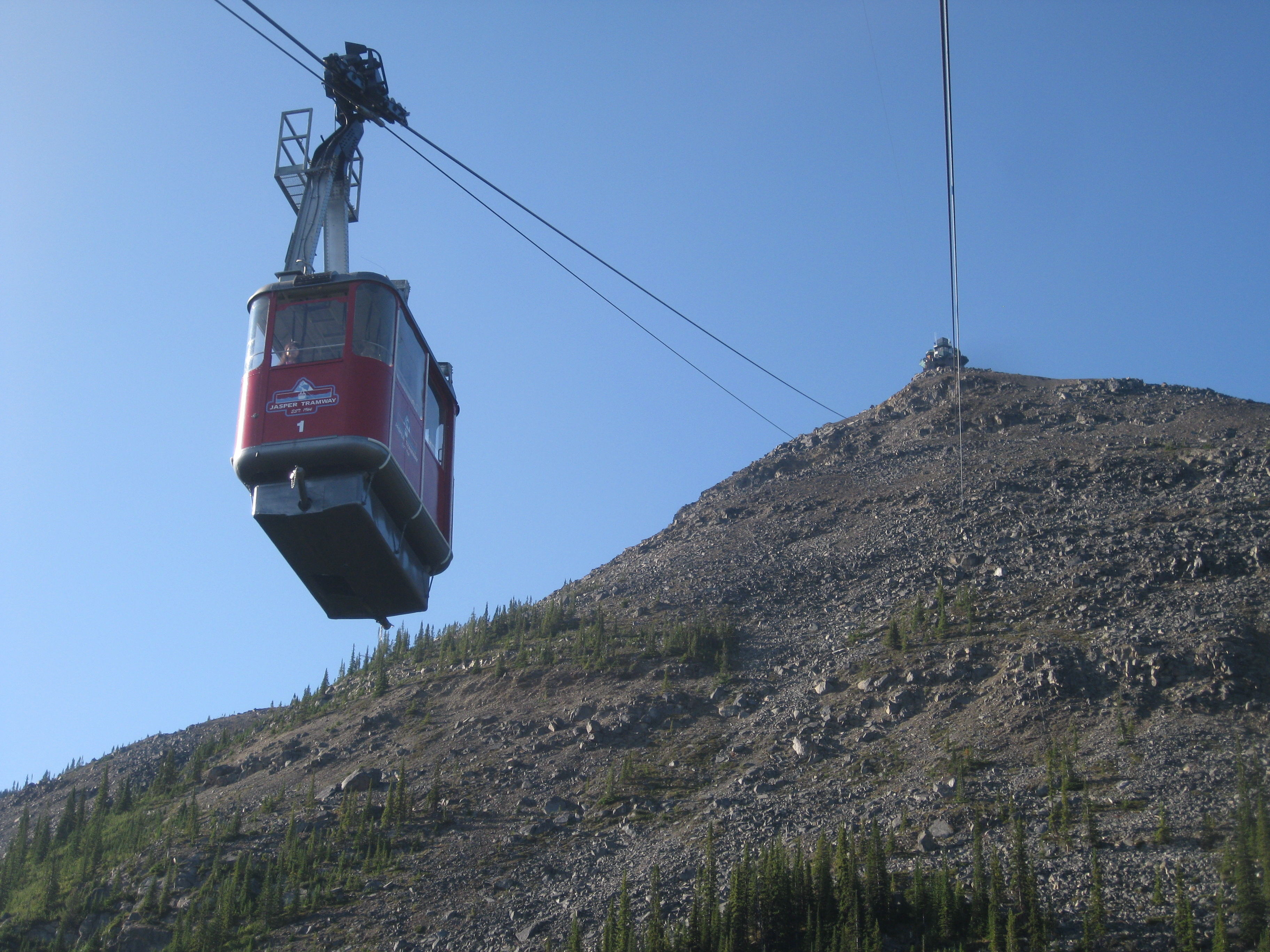 Thought trams only ran on rails...turns out I was [%20rel= completely wrong!]